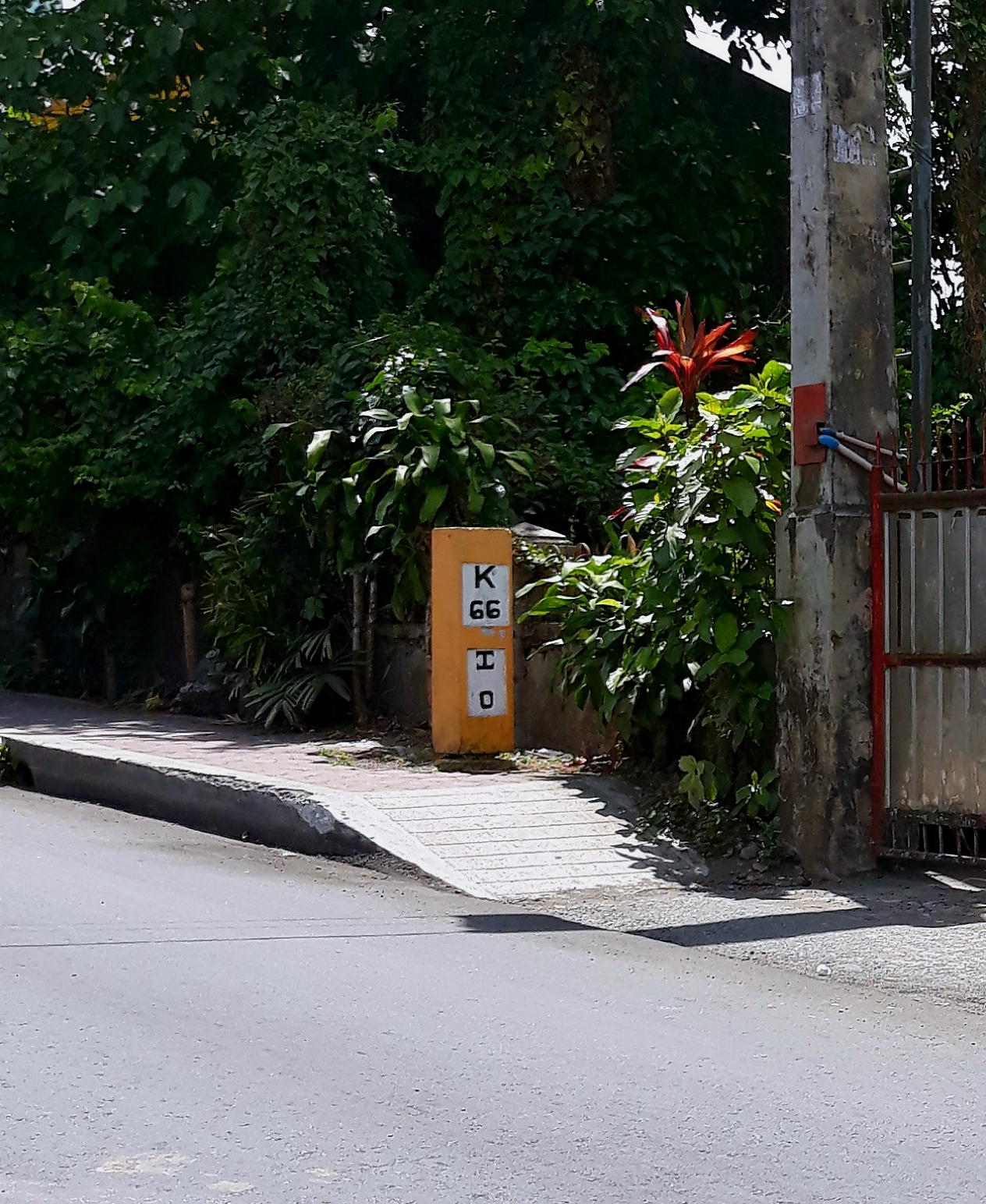 The kilometre zero of Indang, Cavite, Philippines.